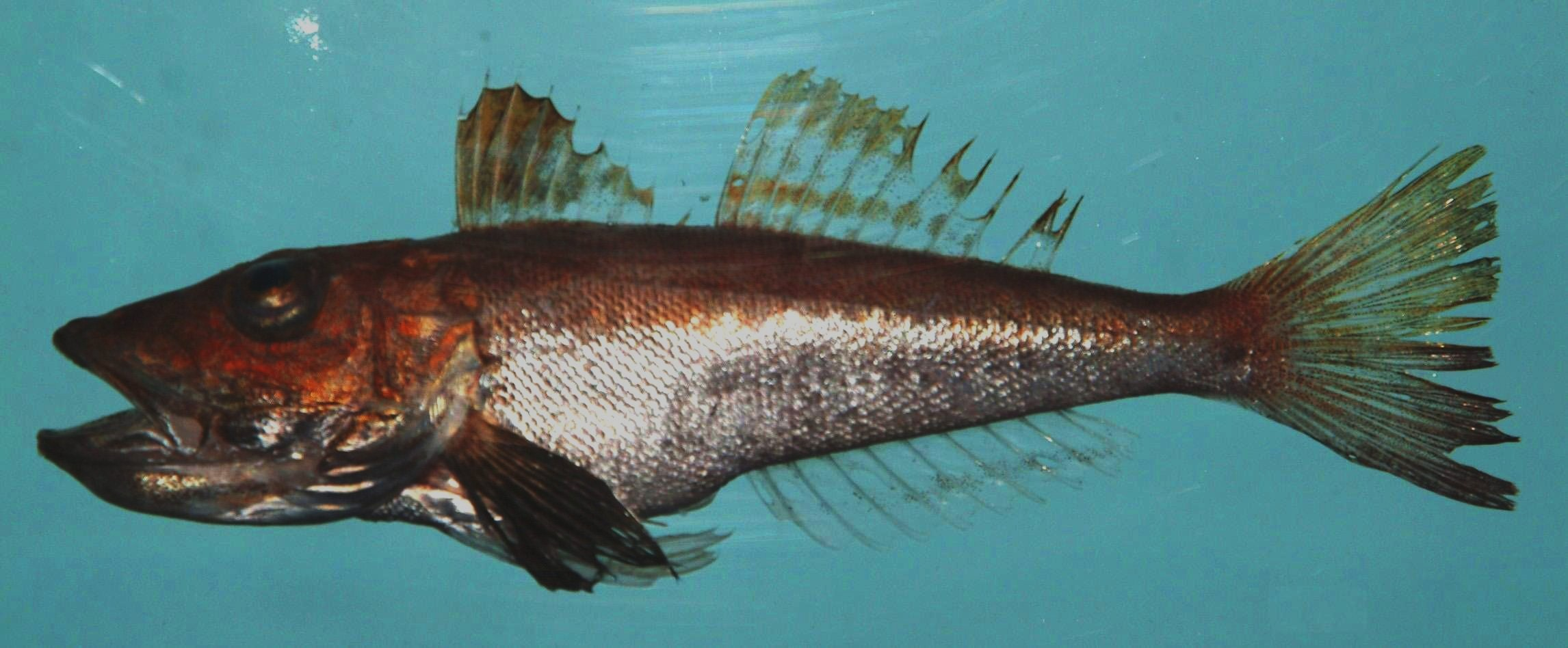 Shortwing searobin ( Prionotus stearnsi )